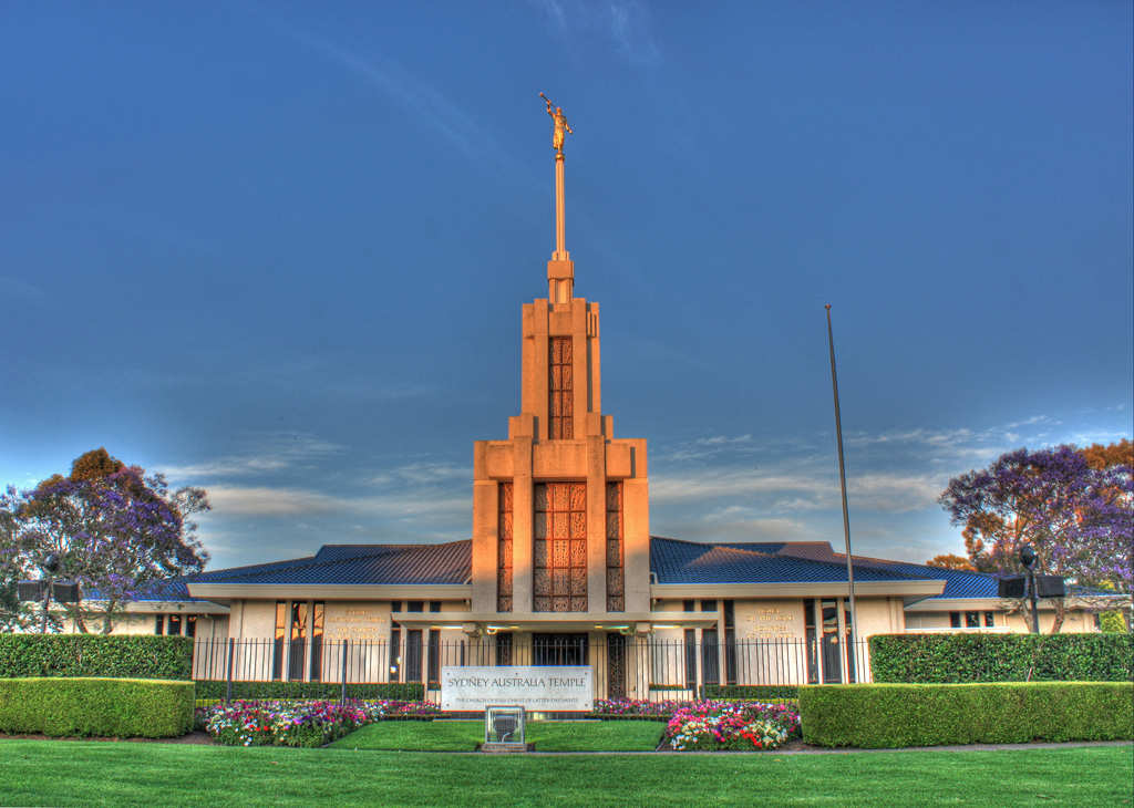 The Church of Jesus Christ of Latter-day Saints in Carlingford, Sydney, Australia. Author: Scott Contini